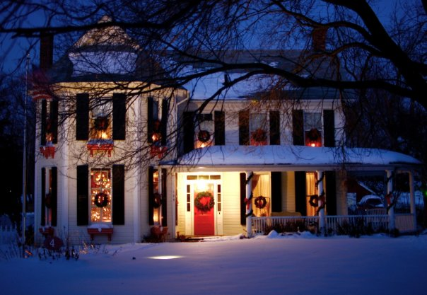 The Cockey House, Stevensville, Maryland, Winter 2011